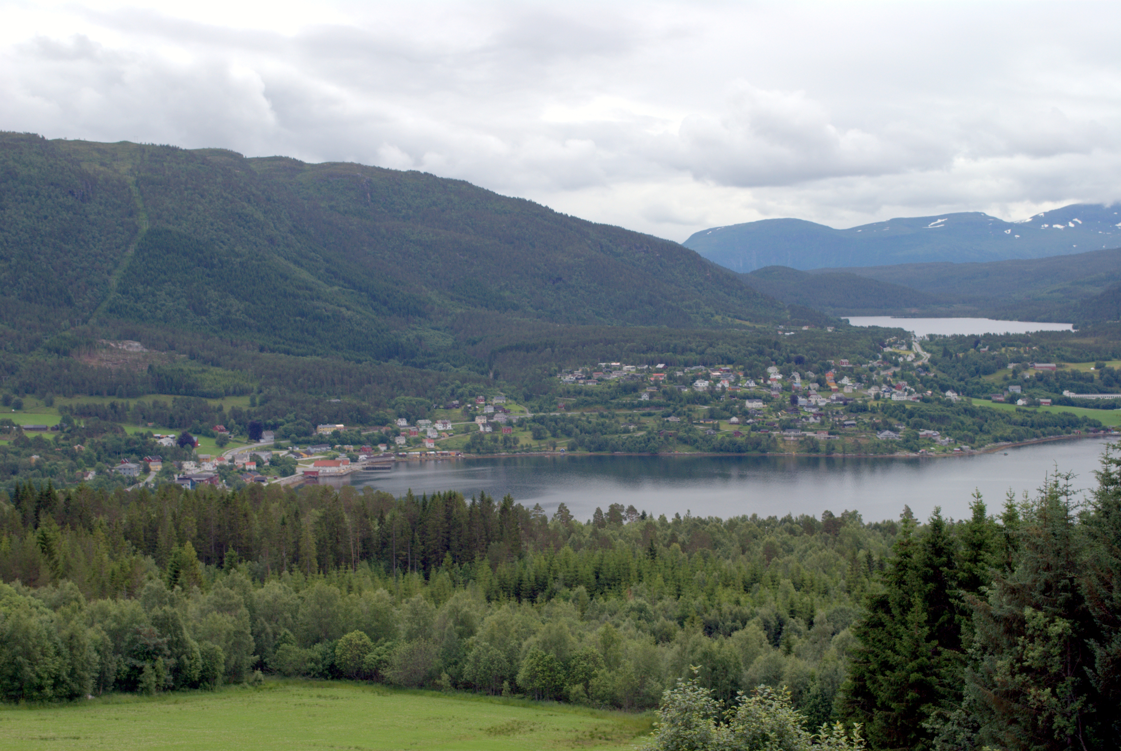 Tingvoll (also Tingvollvågen), administrative center of Tingvoll community.